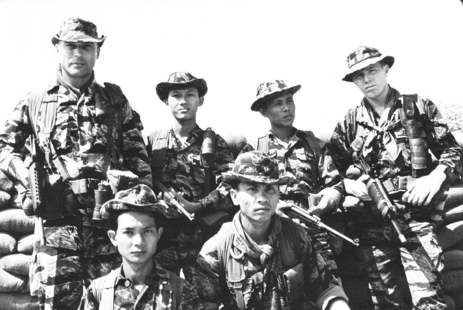 Group of Soldiers from ARVN with SFC Norman A. Doney, 5th S.F. Group Abn., 1st S.F., Vietnam, Sept. 1968.